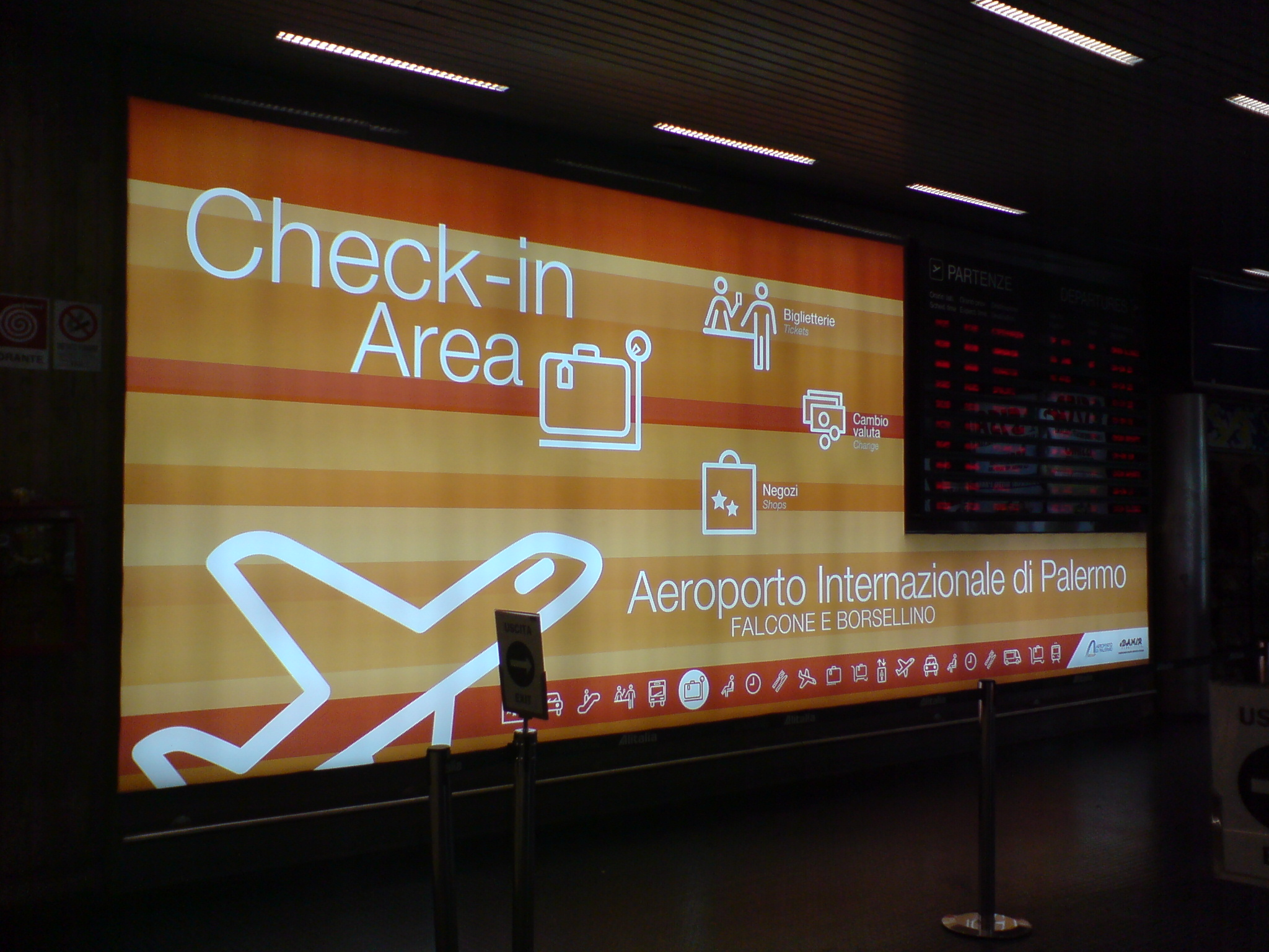 Check-in Area, Palermo Airport.